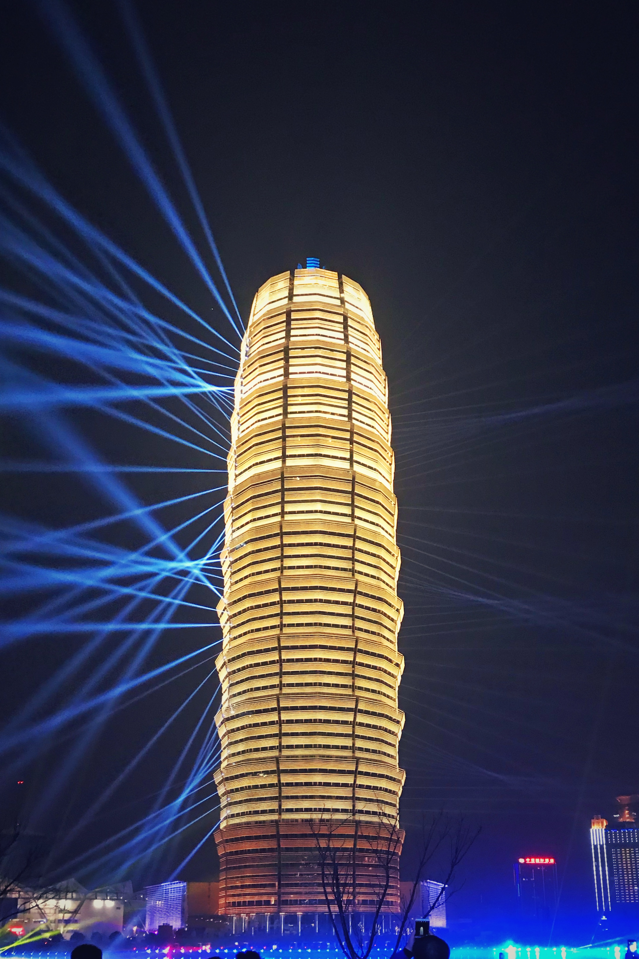 The Zhengzhou Greenland Center, often referred to as the "Big Corn", at 2018 New Year Light Show